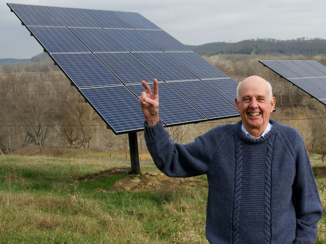 Wendell Berry stands before the solar panels on his farm in Henry County, KY. Photo by Guy Mendes